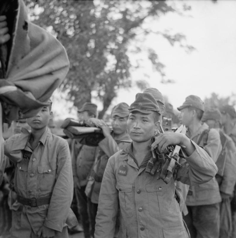 THE JAPANESE SURRENDER IN BURMA, Japanese troops of the 52nd Division hand over their weapons to the 1/10th Gurkha Rifles (17th Indian Division) after surrendering at a railway bridge over the Sittang River in Burma.